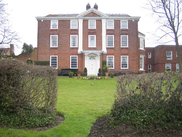 Pinner House The house is in Church Lane and is possibly 17th century with the façade being completed in 1721. Between 1788 and 1811 it was the home of the Rev. Walter Williams, Vicar of Pinner and Harrow, and his wife, Mary Beauclerc, great-granddaughter of King Charles II and Nell Gwynn.